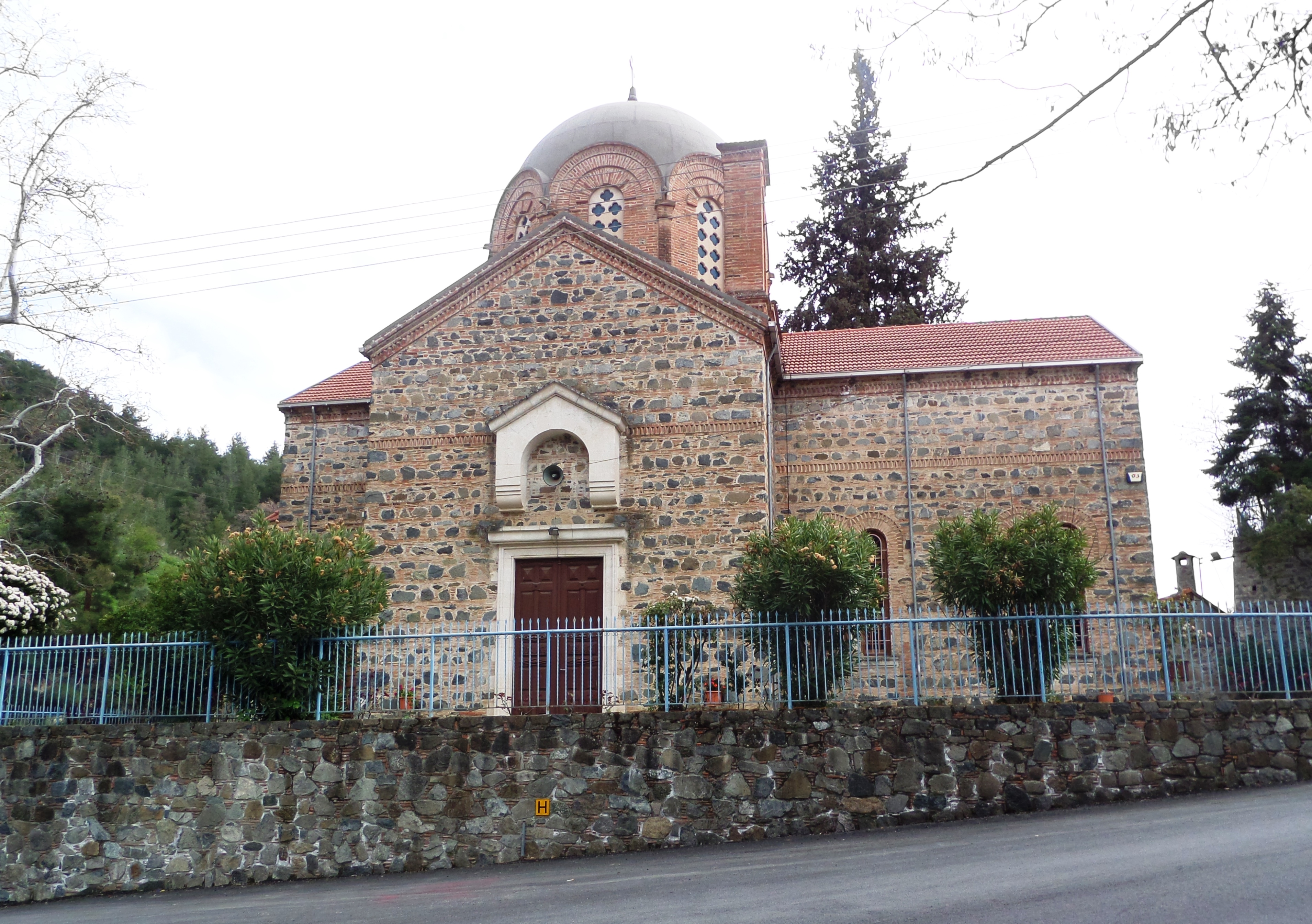 Panagia church in Potamitissa.